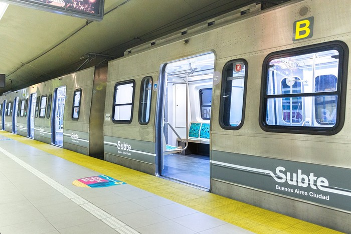 A Line D Alstom train on the Buenos Aires Underground